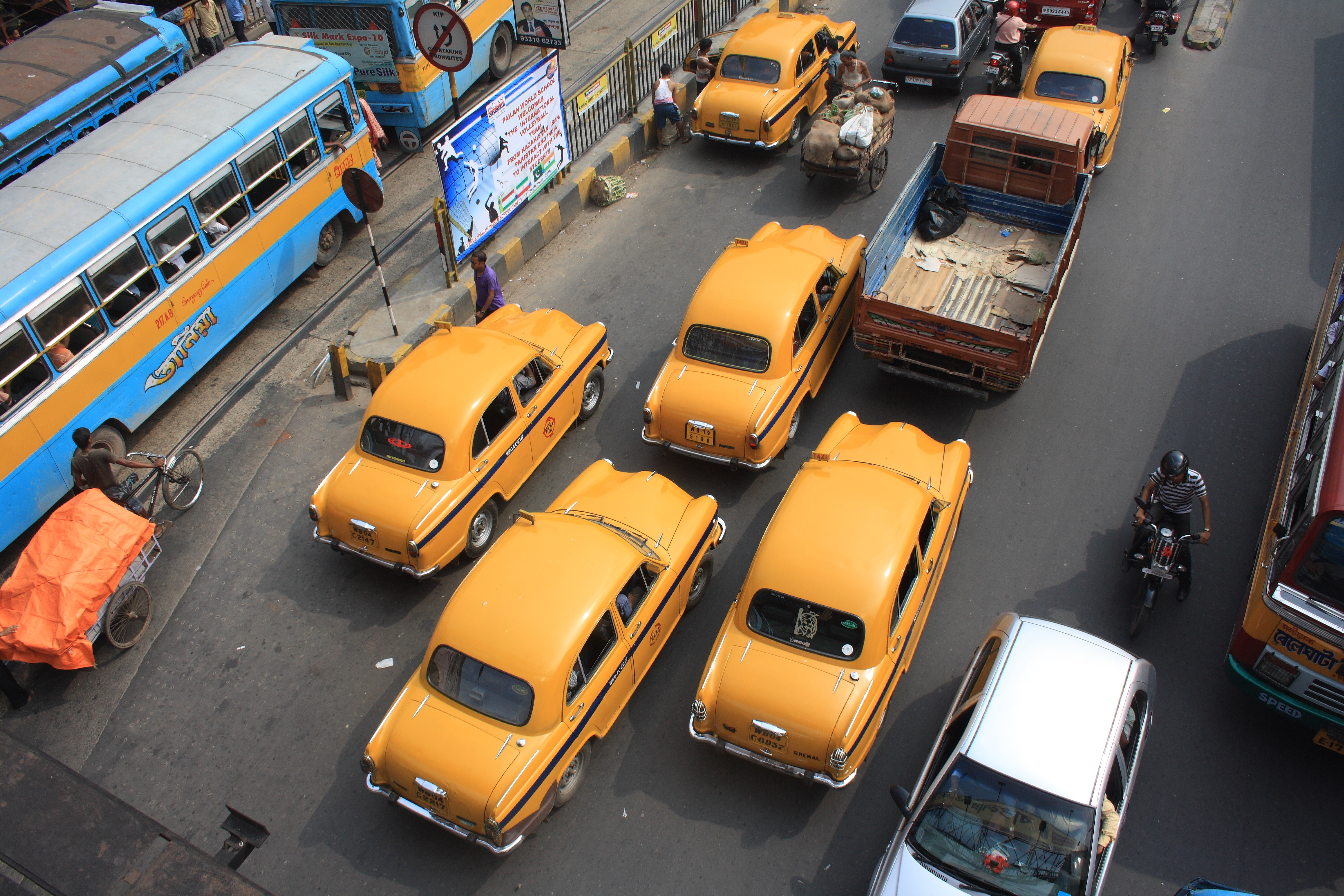 Taxis stuck in the ever honking traffic in Kolkata near Sealdah train station.